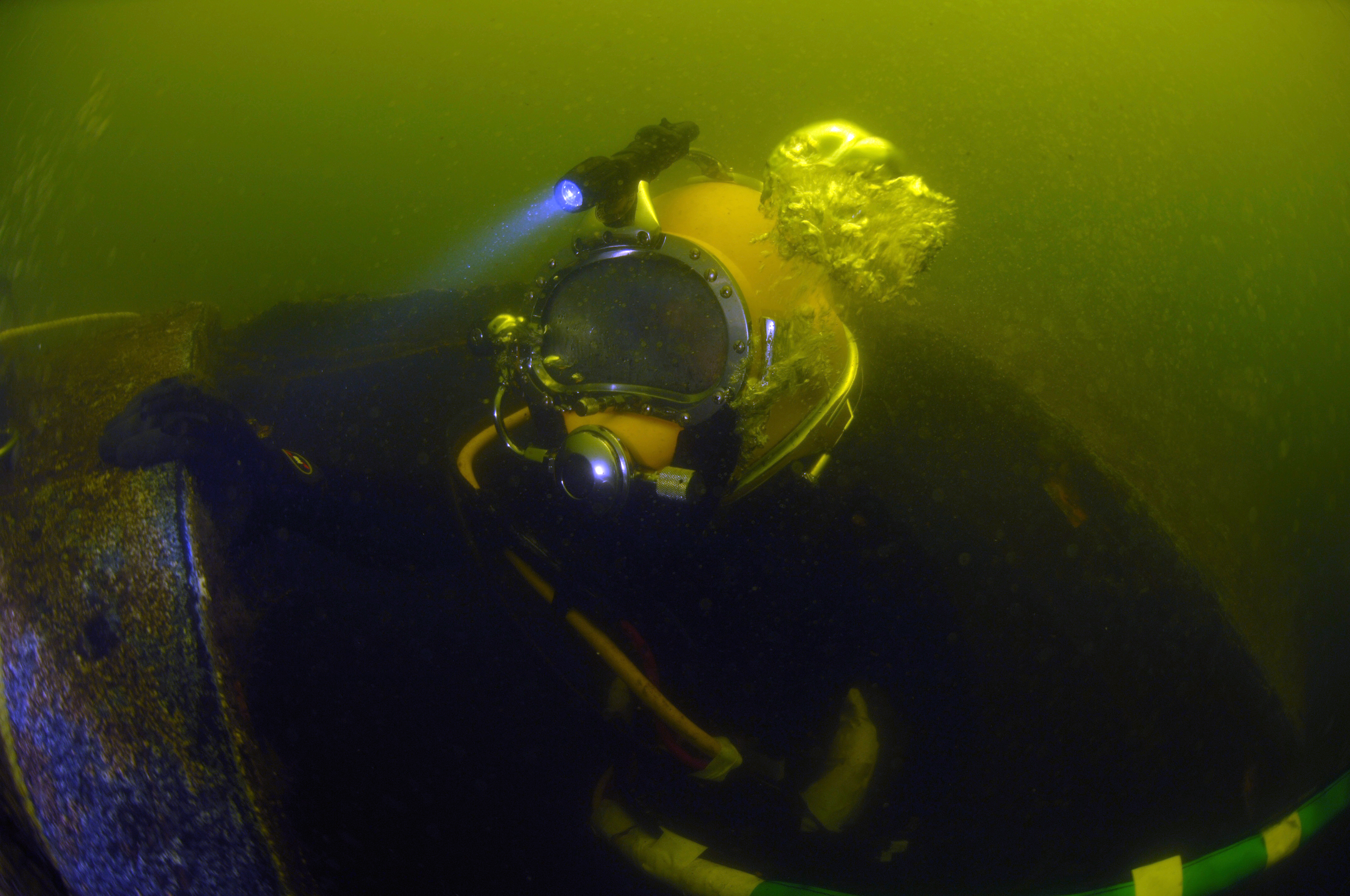 Providence, RI (June 7, 2008) Navy Reserve Navy Diver Seaman Jesse Kole, assigned to Naval Experimental Diving Unit, does an inspection dive of the interior of the wreck of the former Russian submarine Juliett 484. Navy and Army divers, along with federal, state, and local authorities, participate in a joint service operation to raise the sunken submarine at Collier Point Park in Providence. U.S. Navy photo by Mass Communication Specialist 1st Class Eric Lippmann (Released)